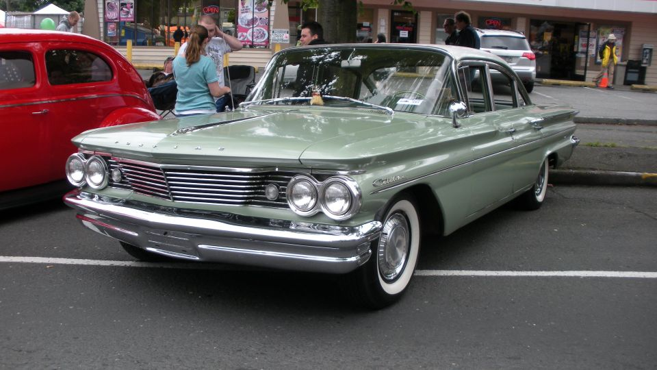 Photo taken at the Greenwood Car Show in Seattle Washington.